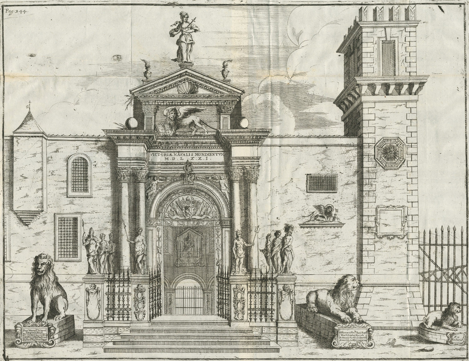 Illustration from Atene Attica Descritta da suoi Principii sino all’acquisto fatto dall’Armi Venete nel 1687…, Venice, Antonio Bortoli, 1695 edition, by Francesco Fanelli